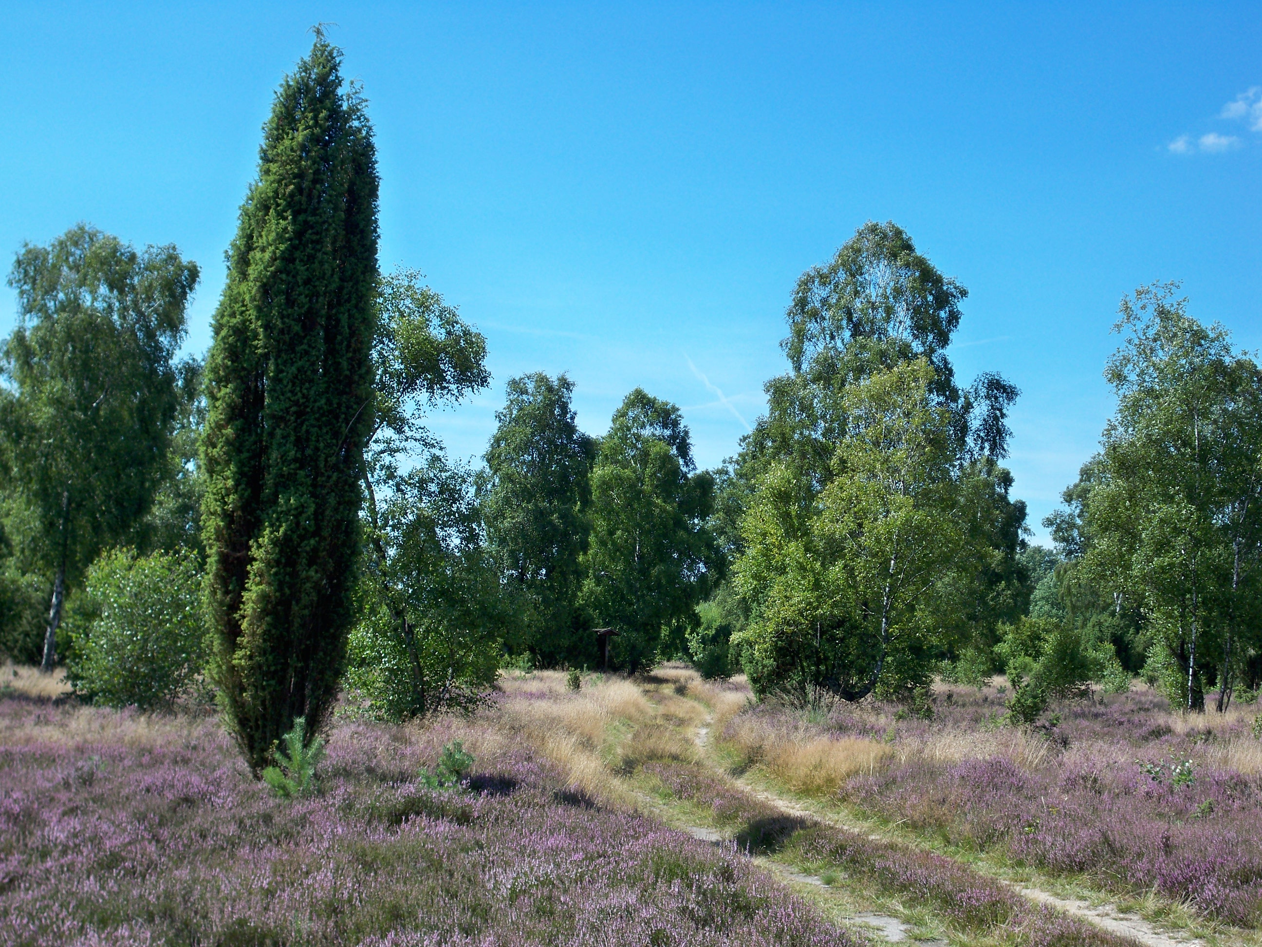 Schnuckenheide, Lower Saxony, nature reserve with juniper trees